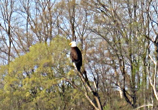 Bald Eagle drawn to beaver pond on Weister Creek, Wisconsin